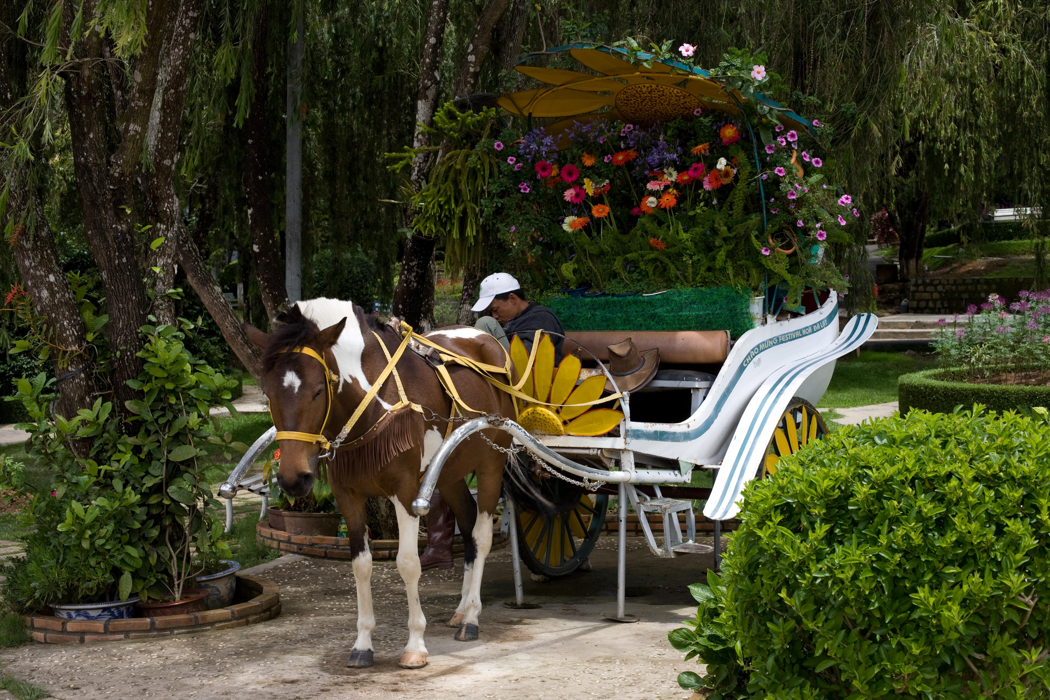 Sleeping Man with Horse and Carriage at the Dalat Flower Garden